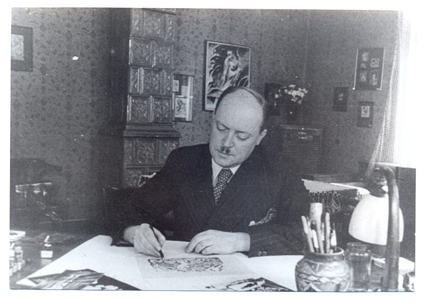 Artist Vadim Lazarkevich in his studio